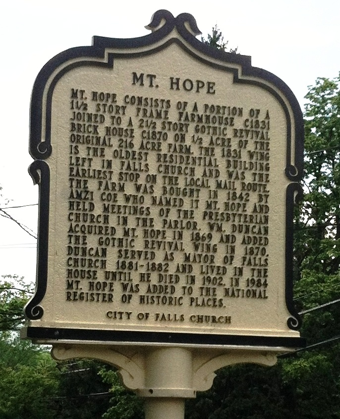 Historic Marker installed by the City of Falls Church